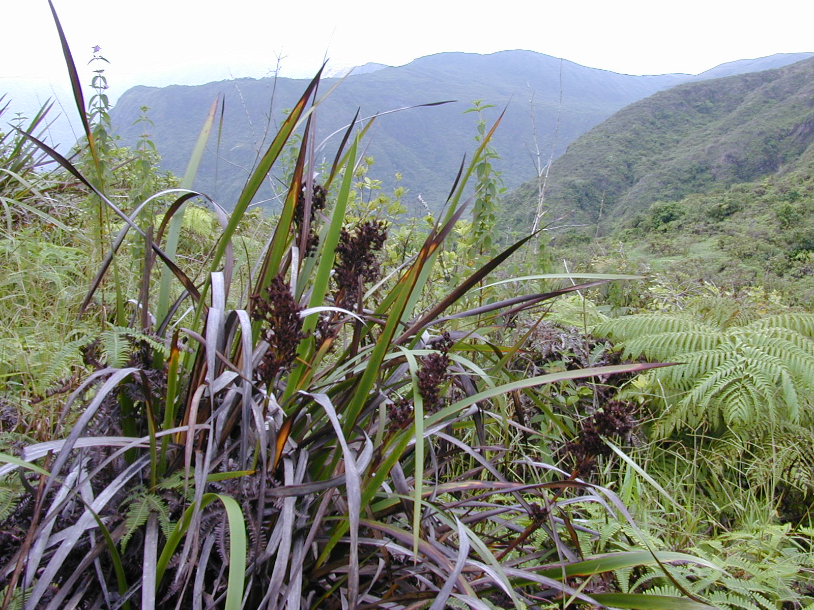 Machaerina angustifolia (fruits). Location: Maui, Waihee Ridge Trail